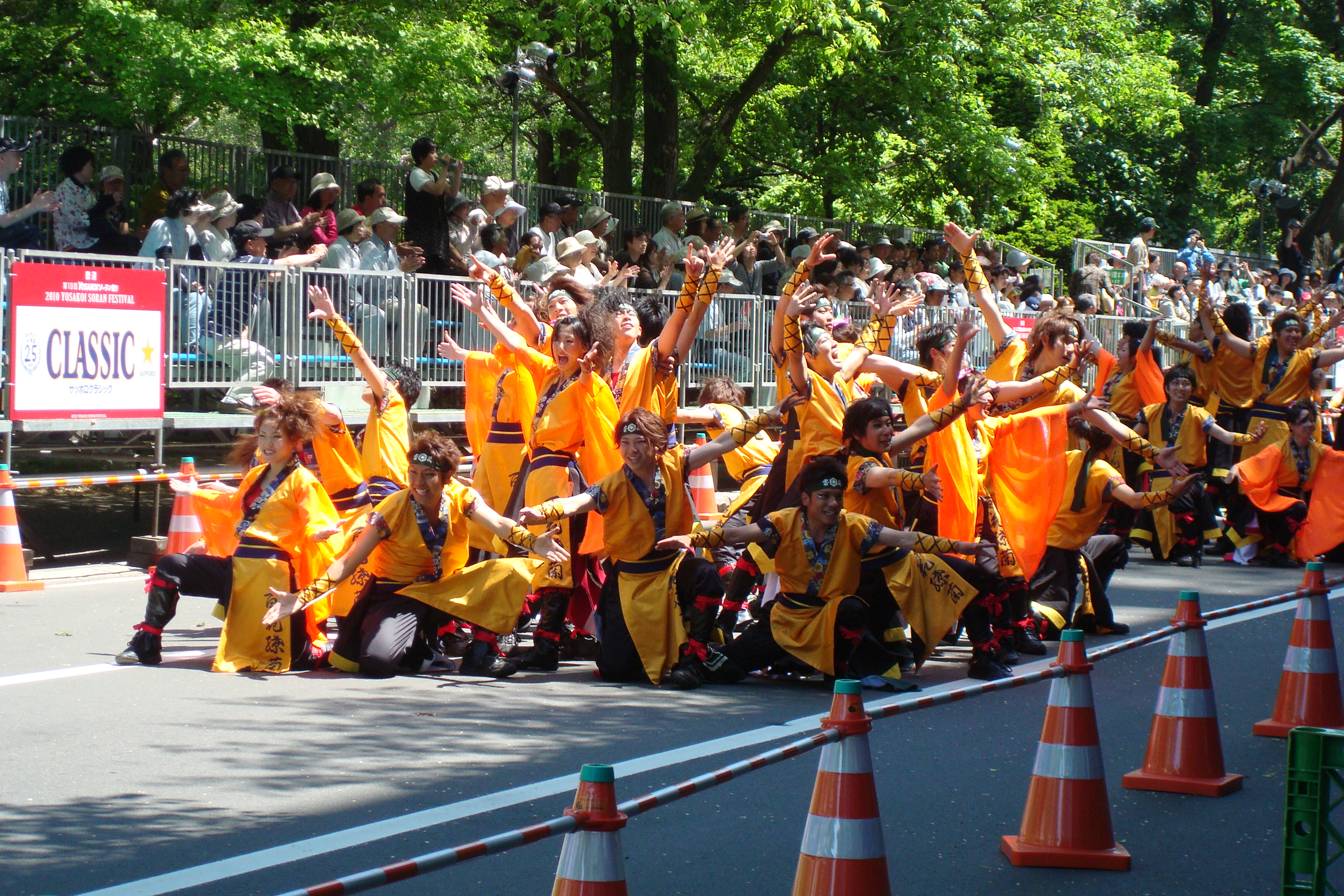 YOSAKOI Soran Festival in 2010